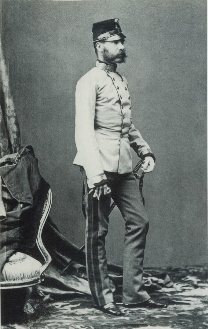 Francis Joseph I. of Austria